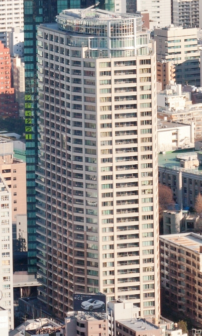 Park Court Azabujuban the Tower, high-rise apartment building, Tokyo